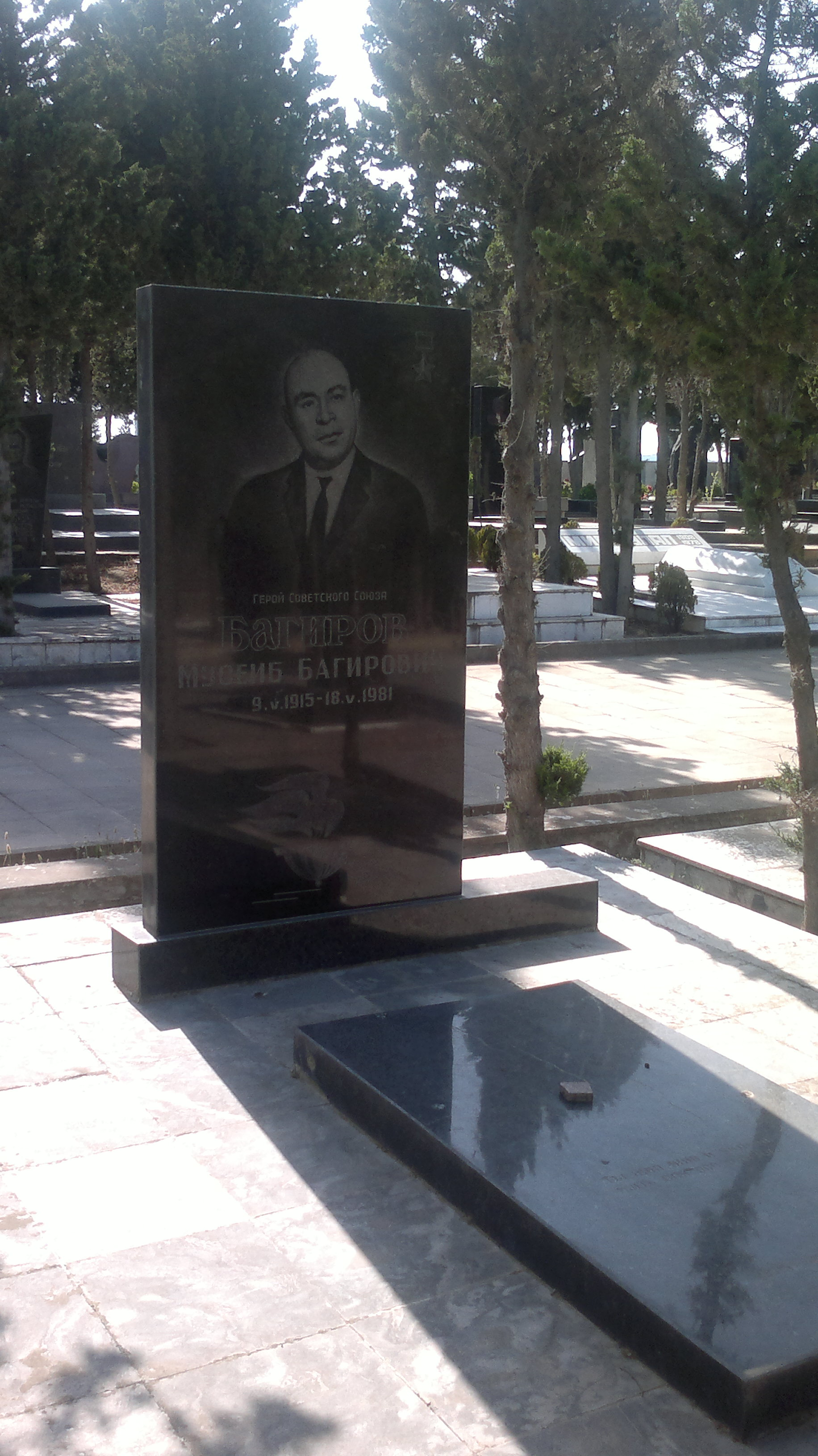 Burial of Museyib Baghirov at II Alley of Honor (Azerbaijan)